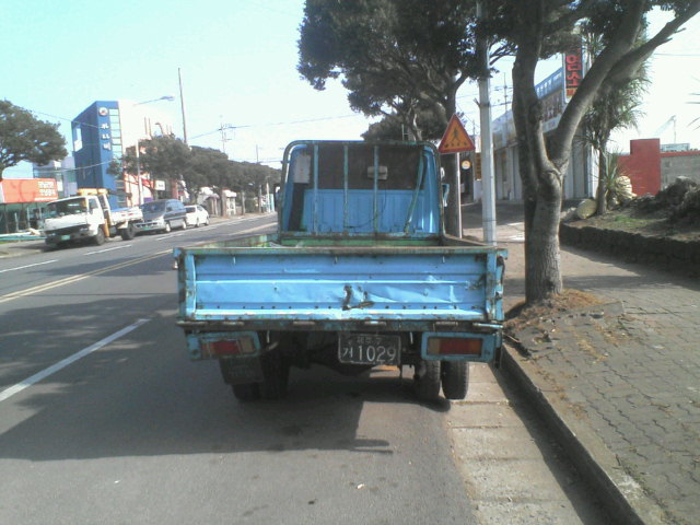 Kia jumbo titan truck